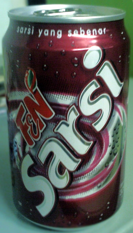 A can of F&N Sarsi in Malaysia